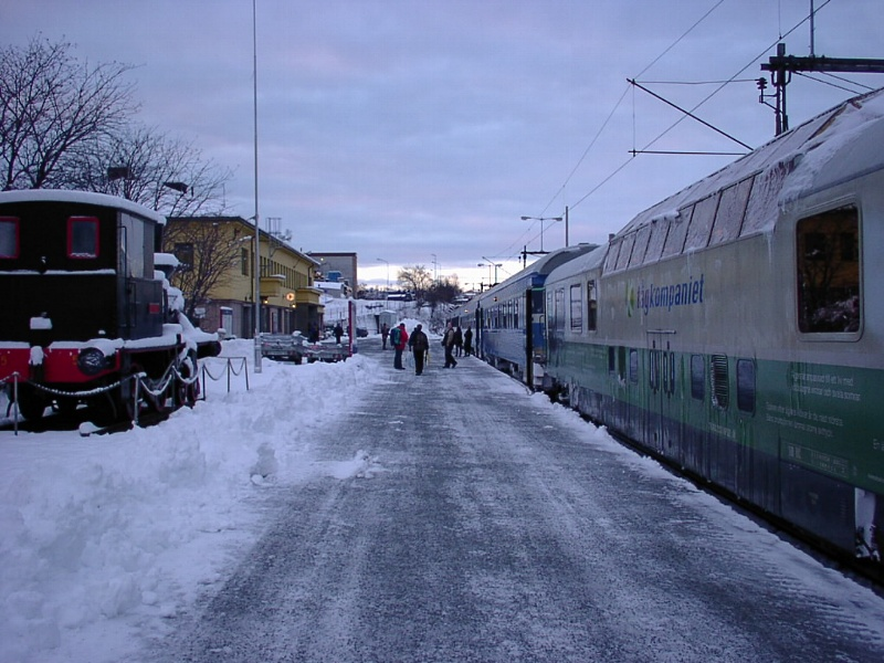 Narvik station, Norway